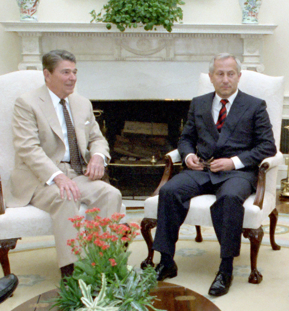 Ronald Reagan’s July 21, 1987 meeting with MI 6 asset Oleg Gordievsky. Reagan and Gordievsky.